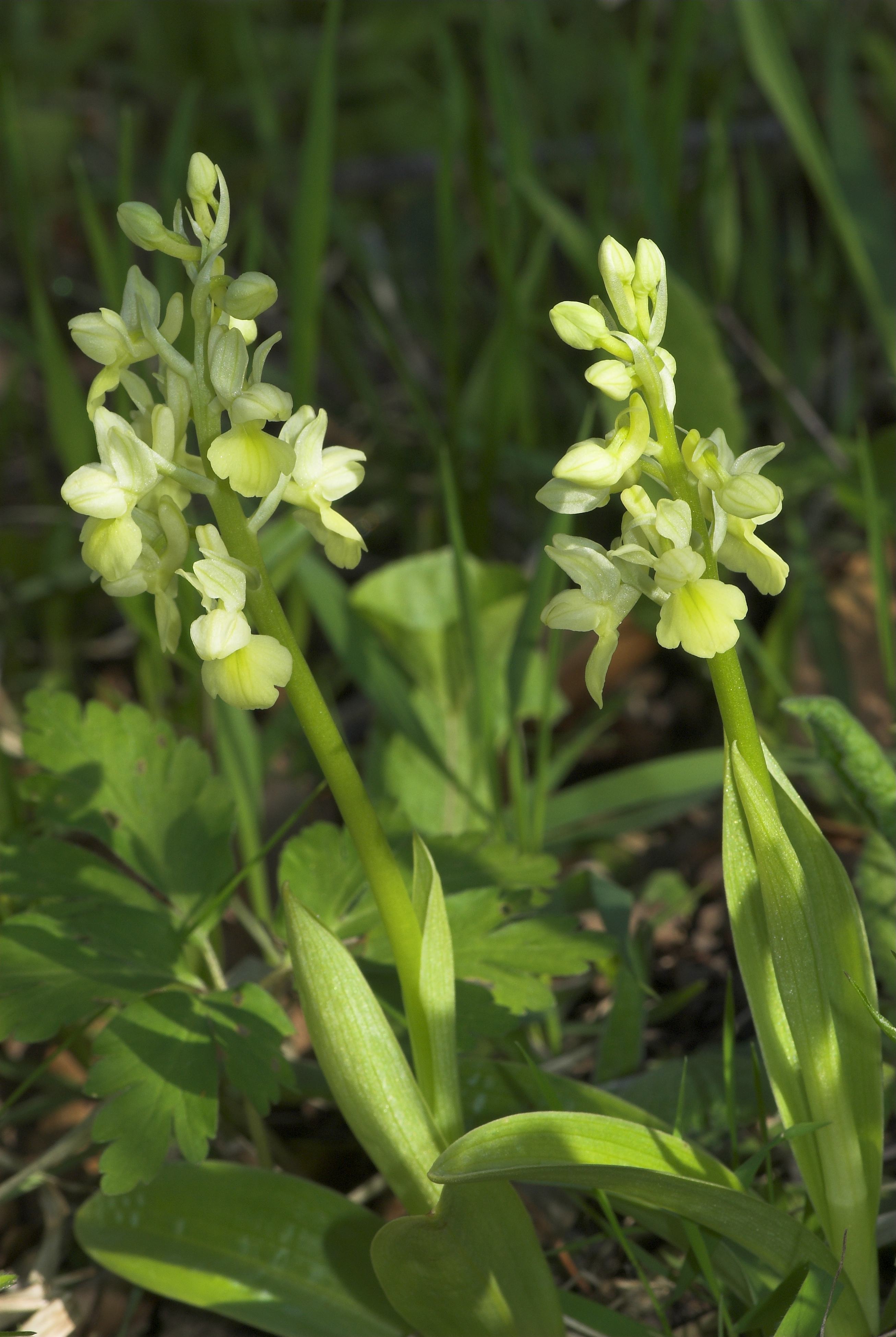 Orchis pallens Zietschkuppe near Löberschütz, Gleistal Thuringia/Germany